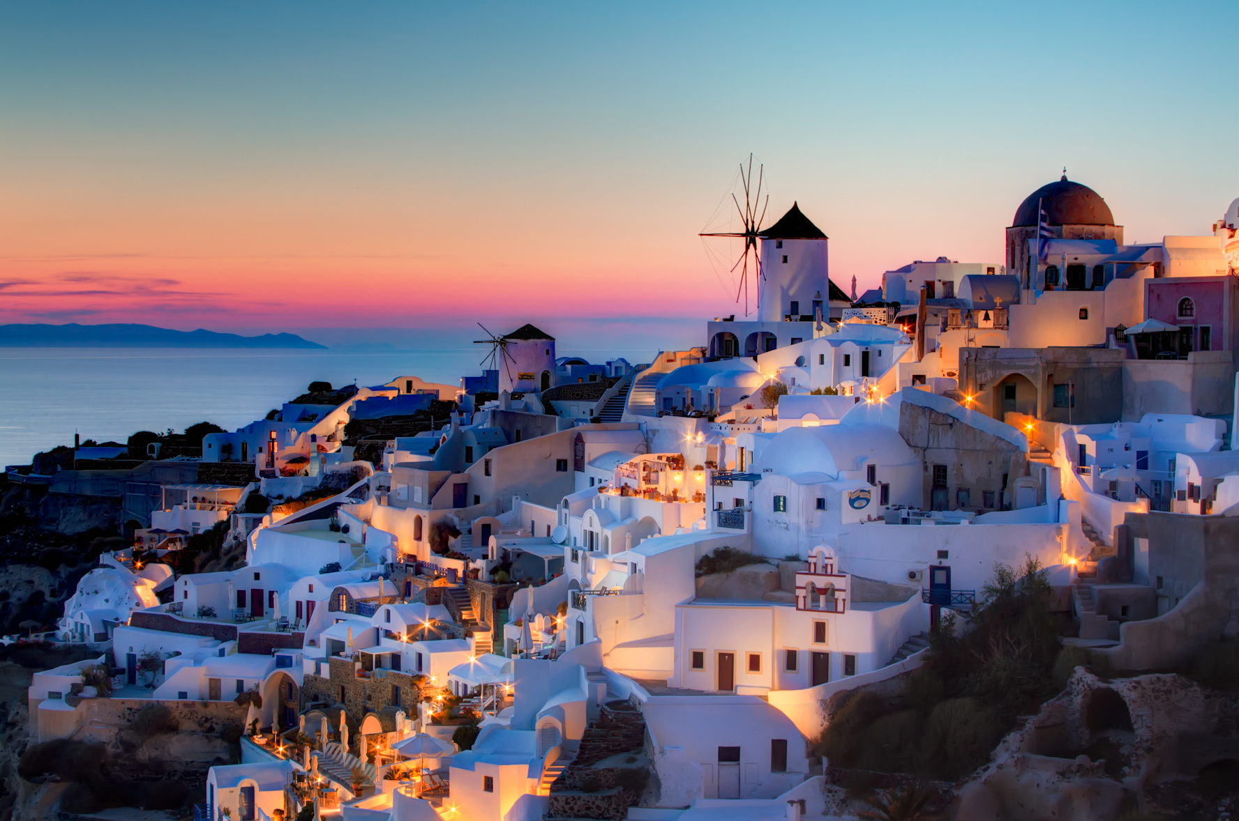 Sunset in Oia, Santorini. Here is my version of the sunset shot in Oia. This is a blend of 3 shots, 1.3 to 20 seconds, processed as follows: 1) Reduce noice on all 3 raws. 2) Create HRD in Photomatix 3) Blend using Exposure Fusion, sliders set to produce the most natural looking image while still showing some detail in the very dark areas. 4) PS smart sharpen. 5) PS burn the bottom 6) Nik Brilliance and warming 7) Nik Indian summer to warm th elights, masked to not affect the rest. 8) Nik sunlight, brushed over the buildings to add more light 9) Nik Glamour Glow to remove detail in the dark areas. 10) Detailed curves lightening pn windmills. 11) Dodge buildings that were too dark.